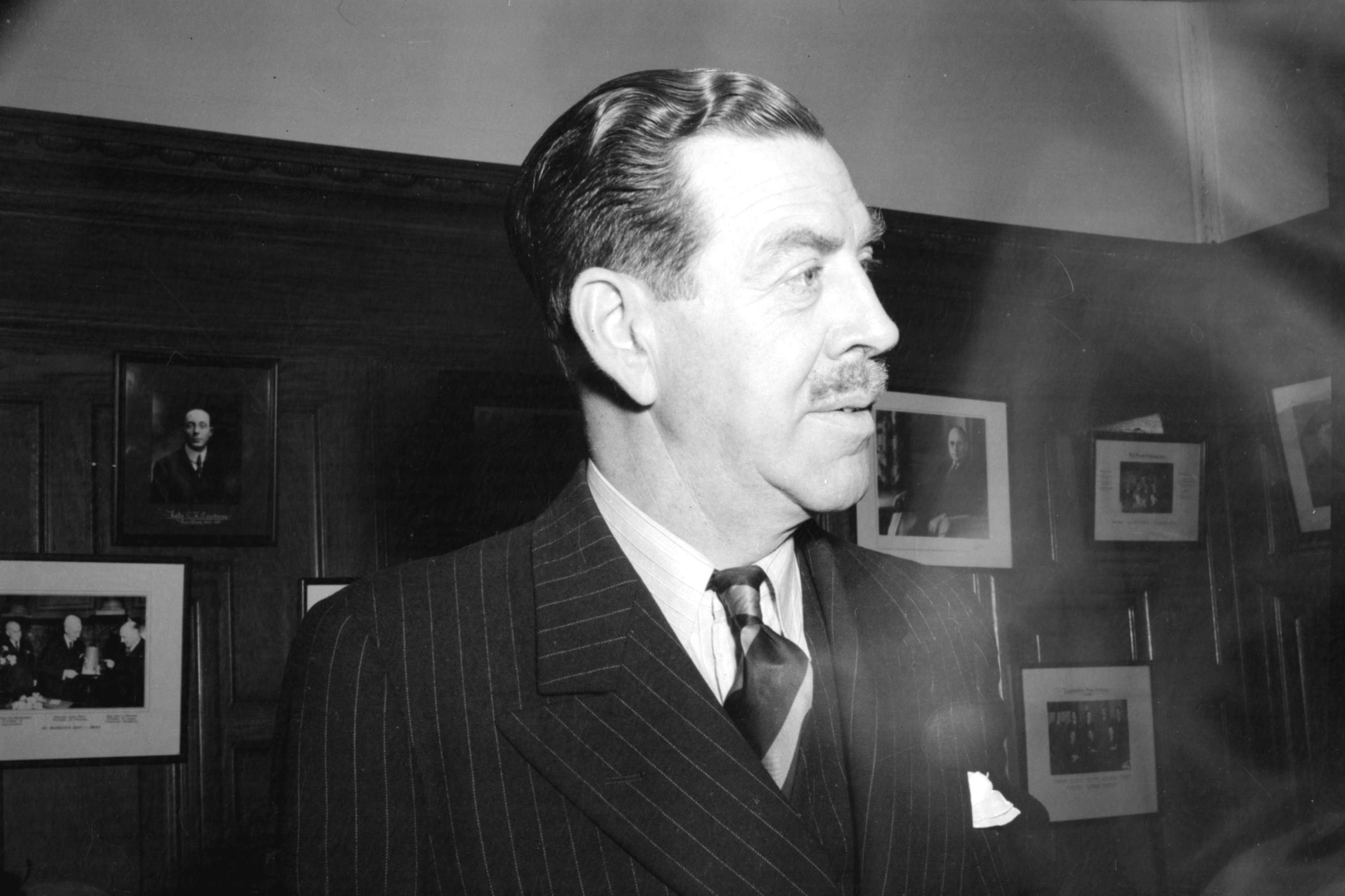 Head and shoulders portrait of Col. MacGregor MacIntosh, ex M.L.A.